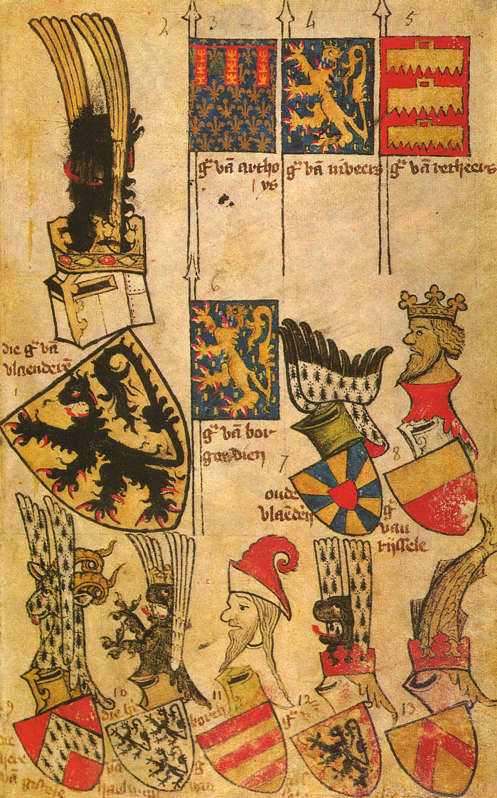 Page out of the Armorial Gelre, showing several arms of Belgian provinces and Flandres. Folio 80r de l'Armorial de Gelre.